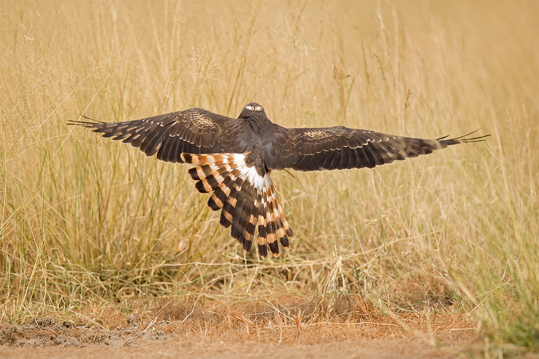 Montagu's Harrier Circus pygargus in flight from Tal Chappar